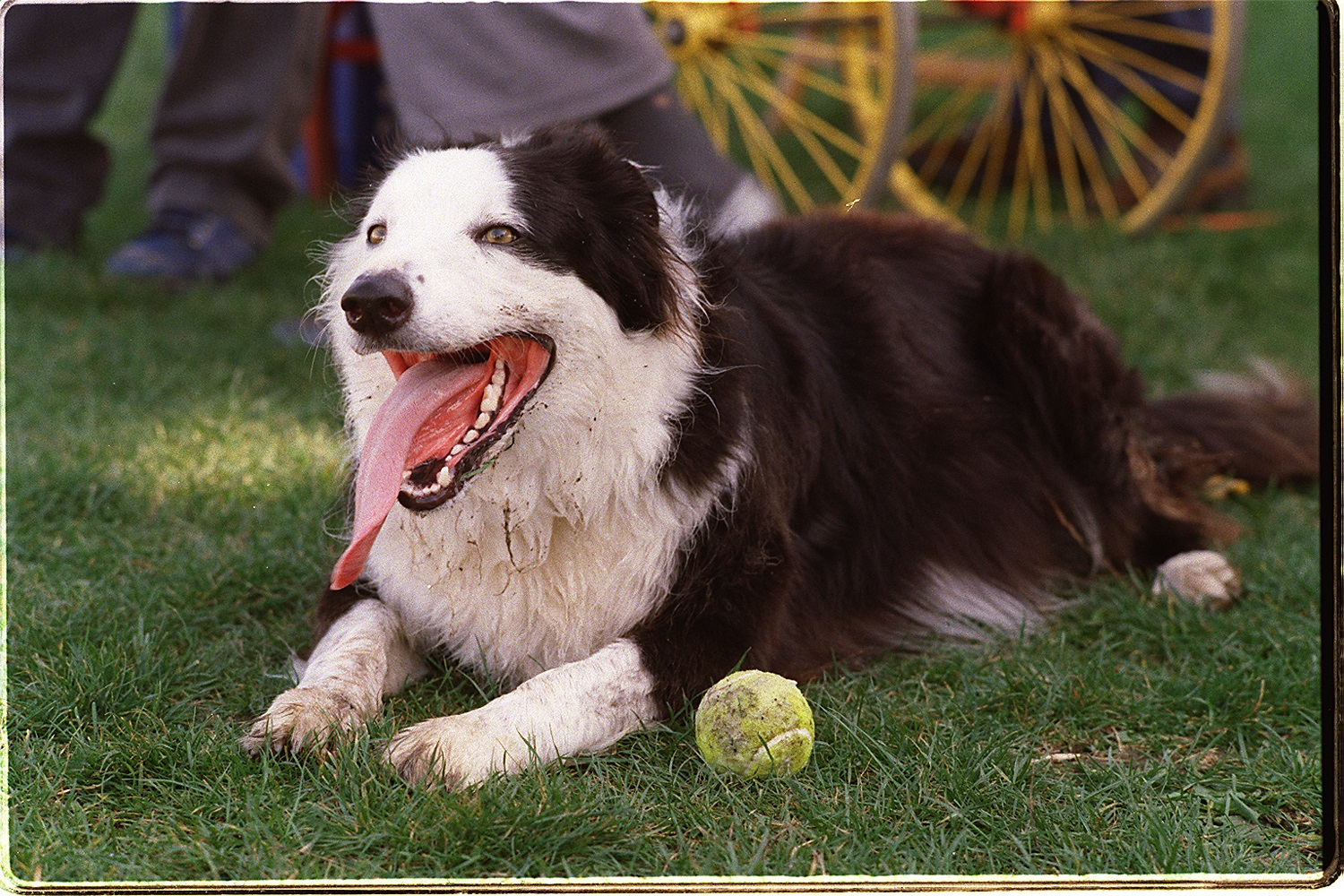 DOG-BORDER1/C/23OCT99 photo by NANCY WONG BORDER COLLIE DOG AT ALTA VISTA PARK, SAN FRANCISCO, STEINER & JACKSON STREETS